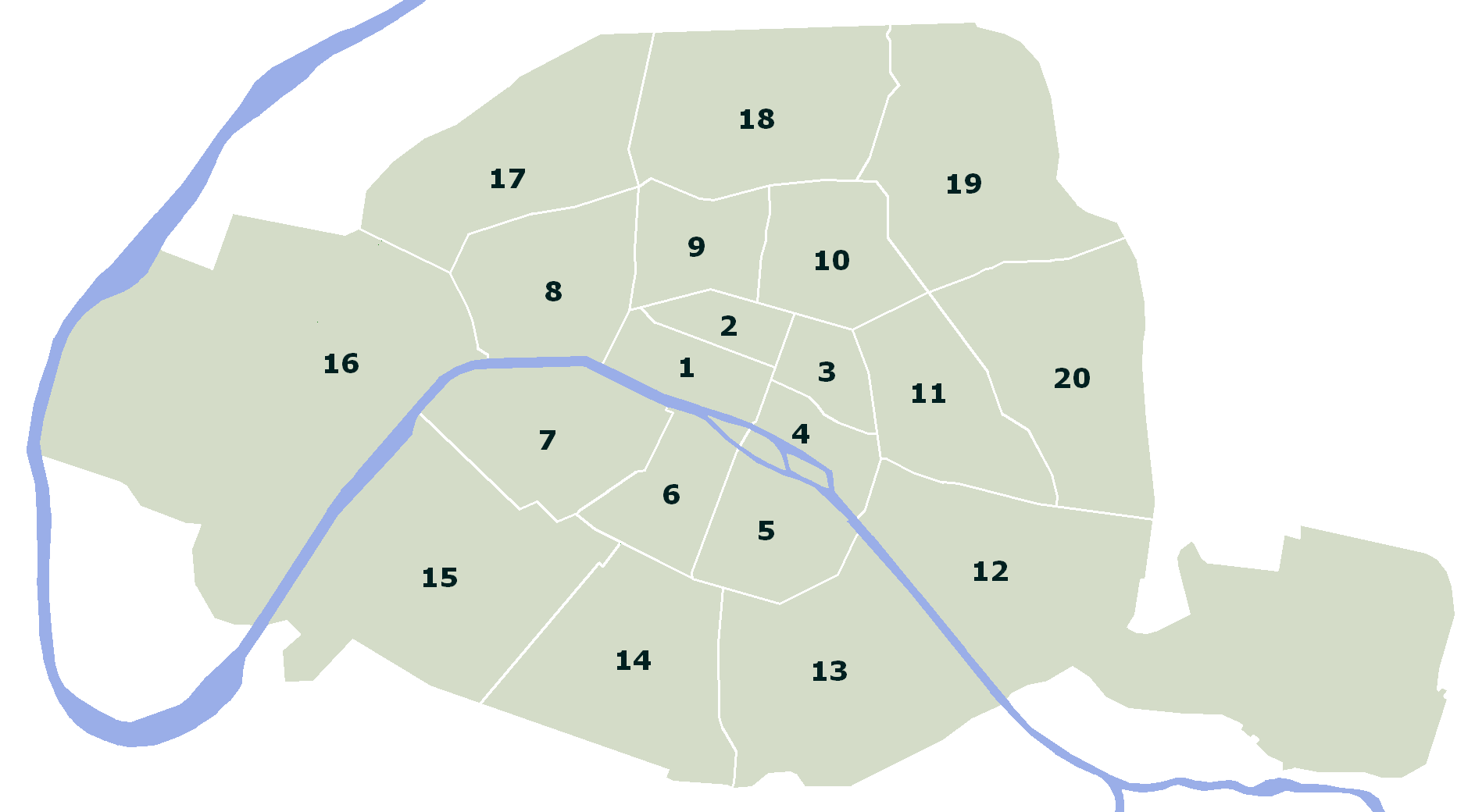 Arrondissements of Paris